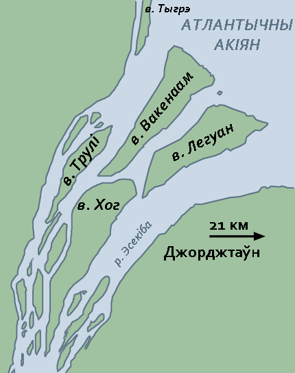 Map of the islands on the Essequibo River Hog, Troolie, Wakenaam and Leguan